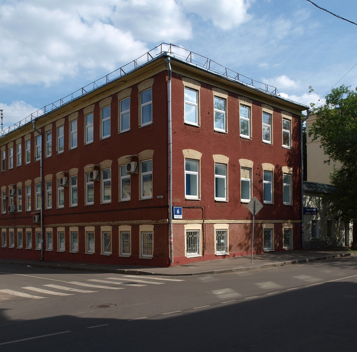 Moscow, Suvorovskaya Street, Preobrazhenskoye District.